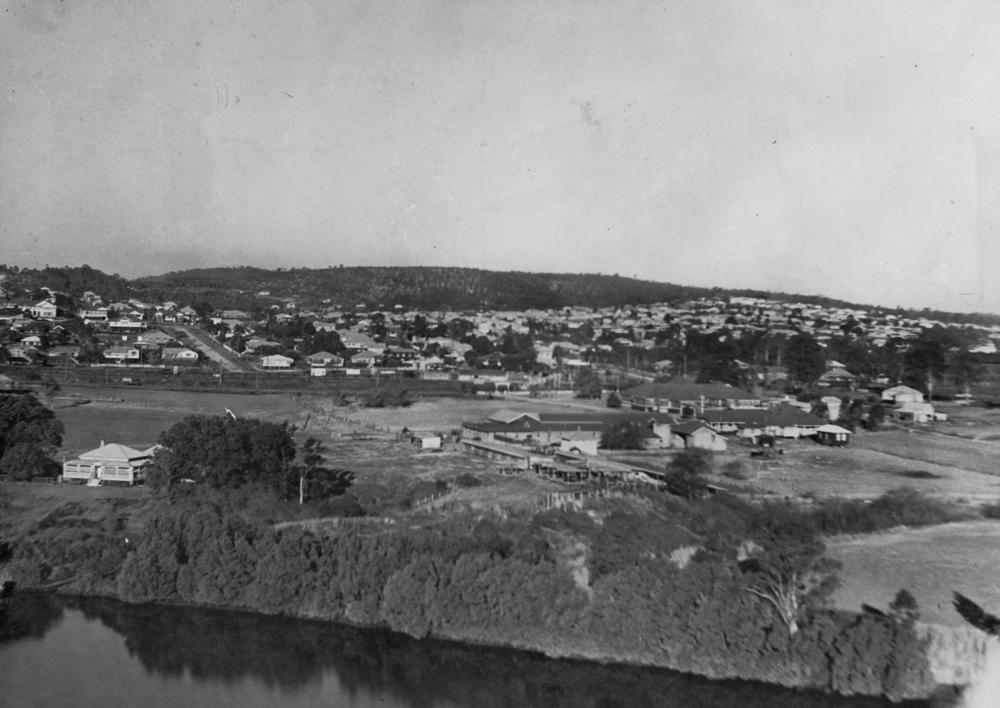 Animal Research Station facing Fairfield Road in Yeerongpilly, Brisbane, 1946